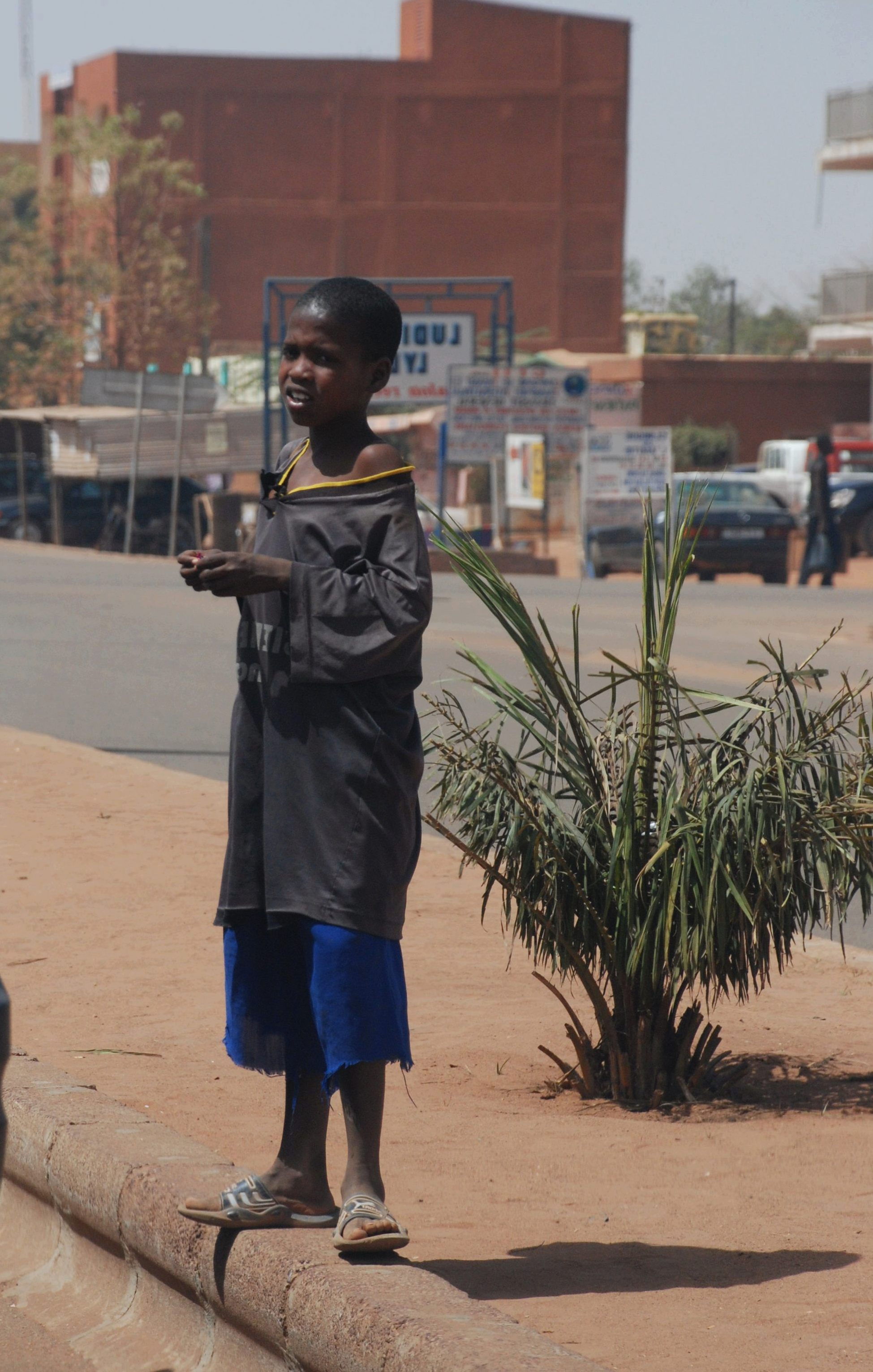 Street kid at a road in Ouagadougou, Burkina Faso